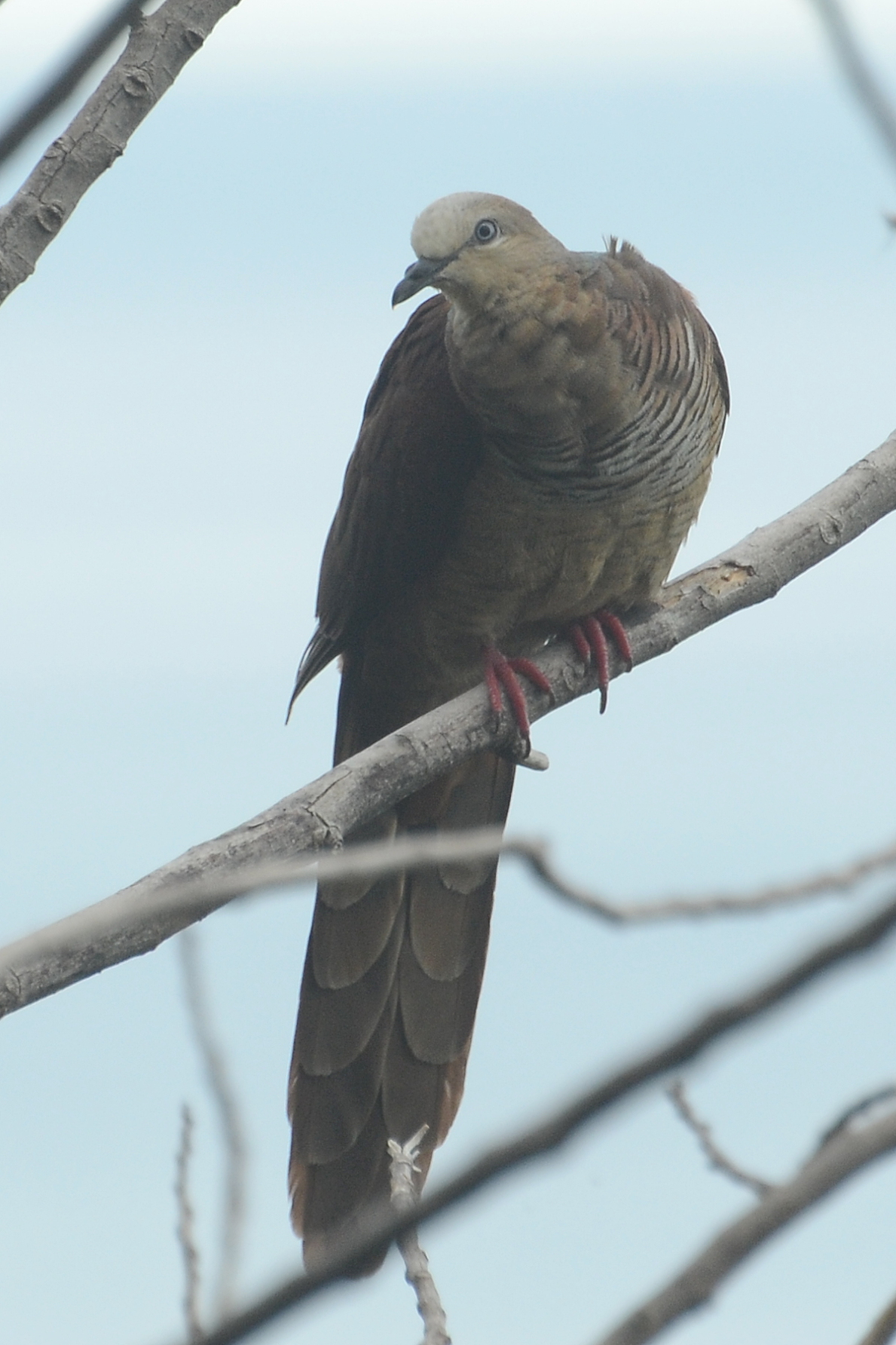 Male of slender-billed cuckoo-dove (Macropygia amboinensis sanghirensis) at West Siau, Siau Island, North Sulawesi